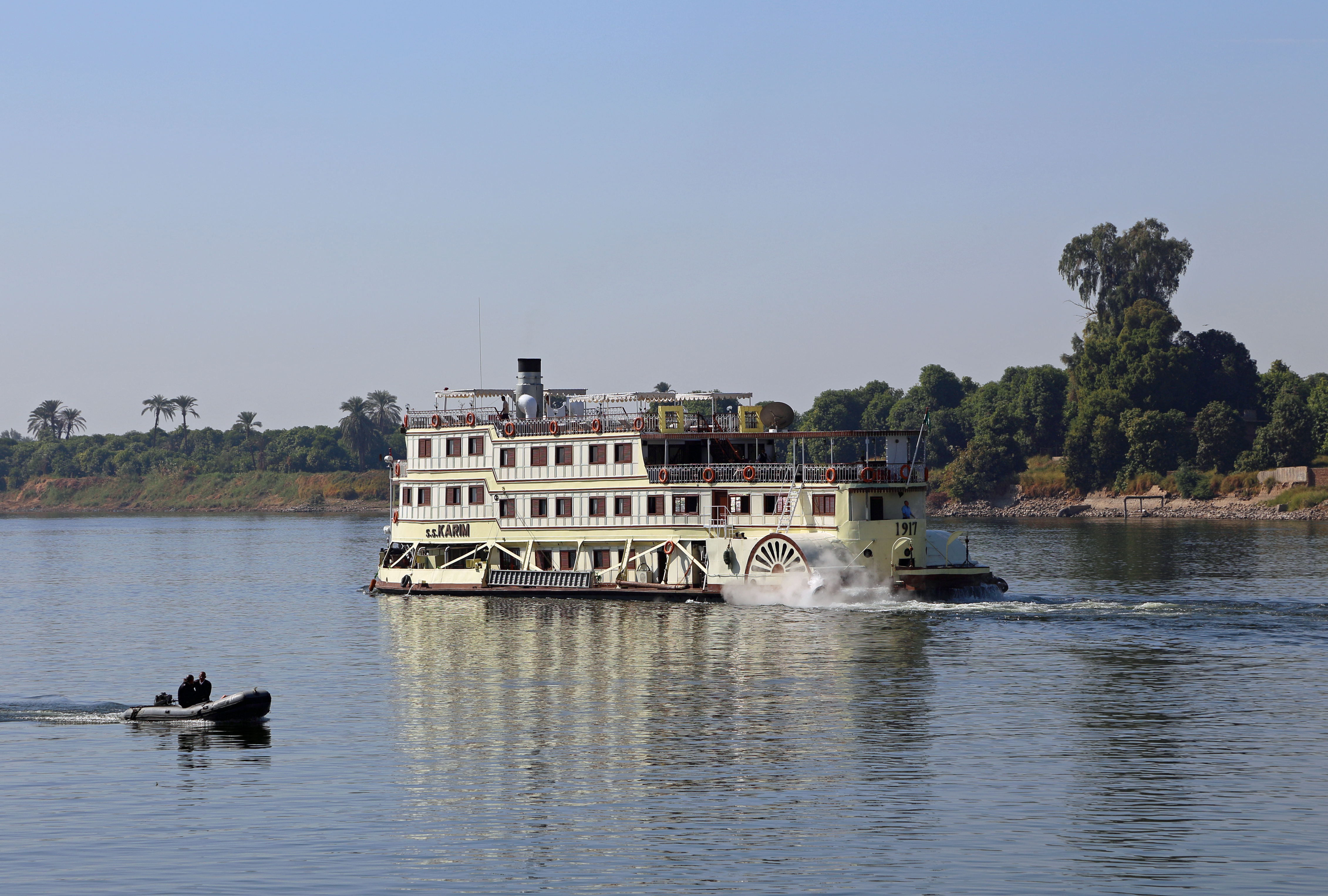 Paddle steamer S/S Karim (built 1917) on the Nile near Luxor (Egypt)